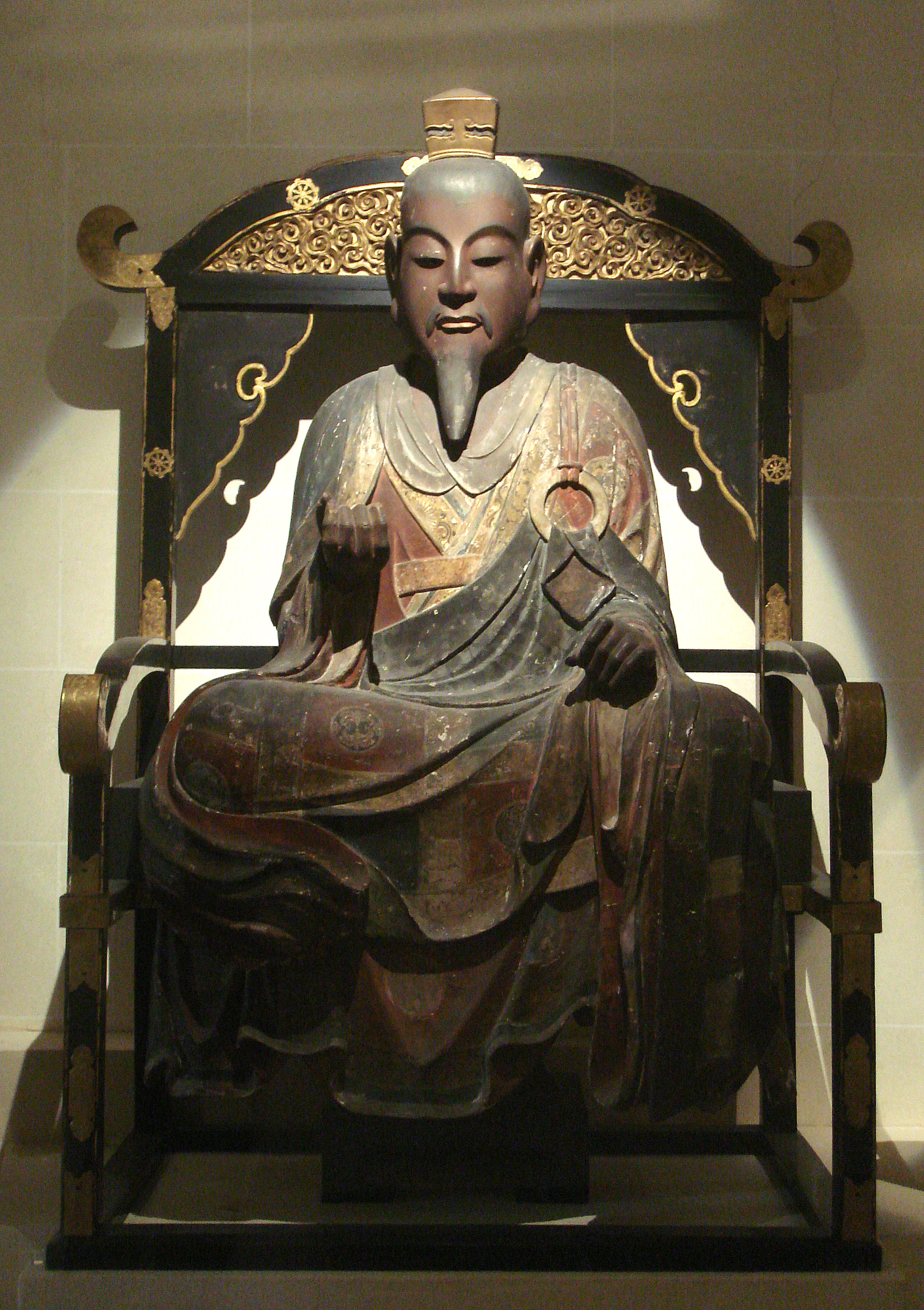 Shotoku_Taishi.